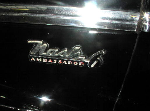 Nash Ambassador Six (1941) sedan, detail of emblem, taken at the Automobile Salon in Augsburg (Germany).